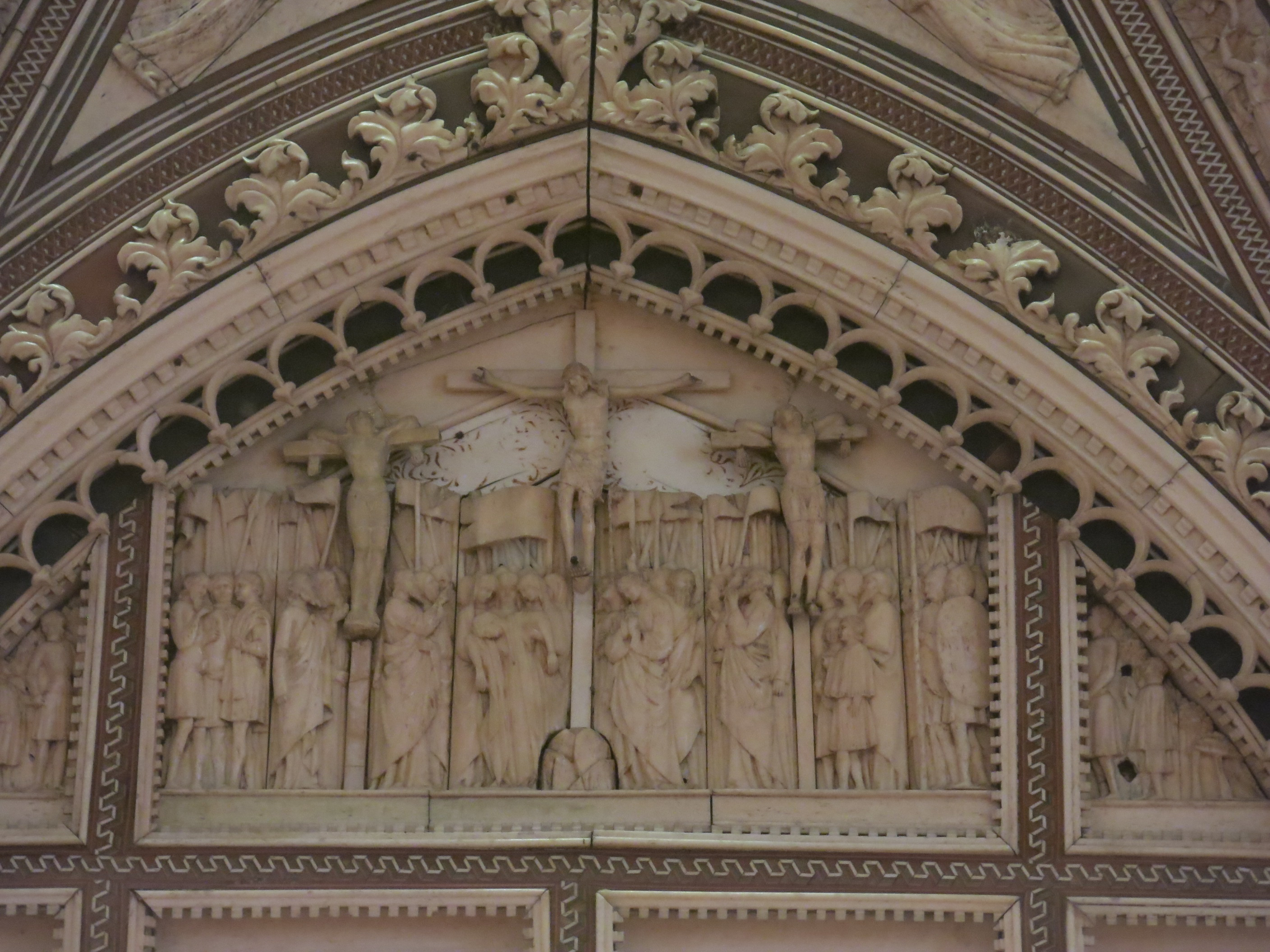 Poissy's reredo - Crucifixion. Louvre museum (Paris, France).